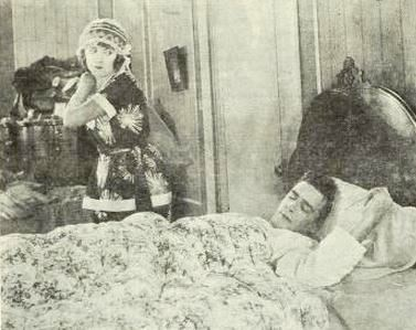 Still from the American comedy short film Rest in Peace (1921) with Mary Wynn and Harry Edwards, on page 2 of the January 24, 1921 Film Daily.